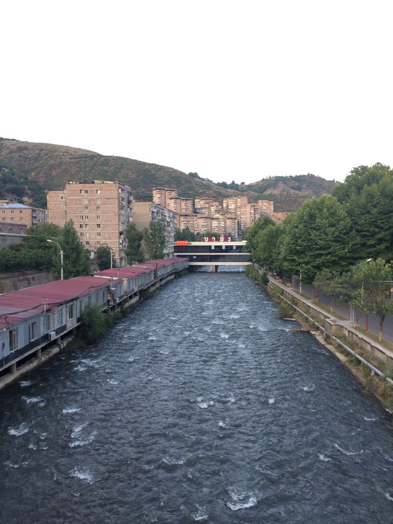 2010 Voghdji River, Zangezur